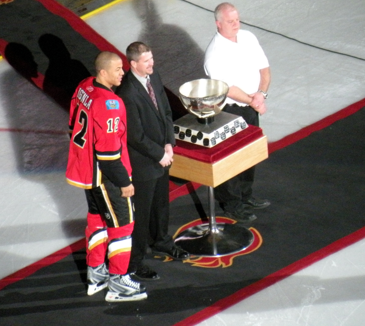 Jarome Iginla of the Calgary Flames during Calgary's monthly Molson Cup presentation. Iginla is being honoured as the runner-up for the month of February 2009.